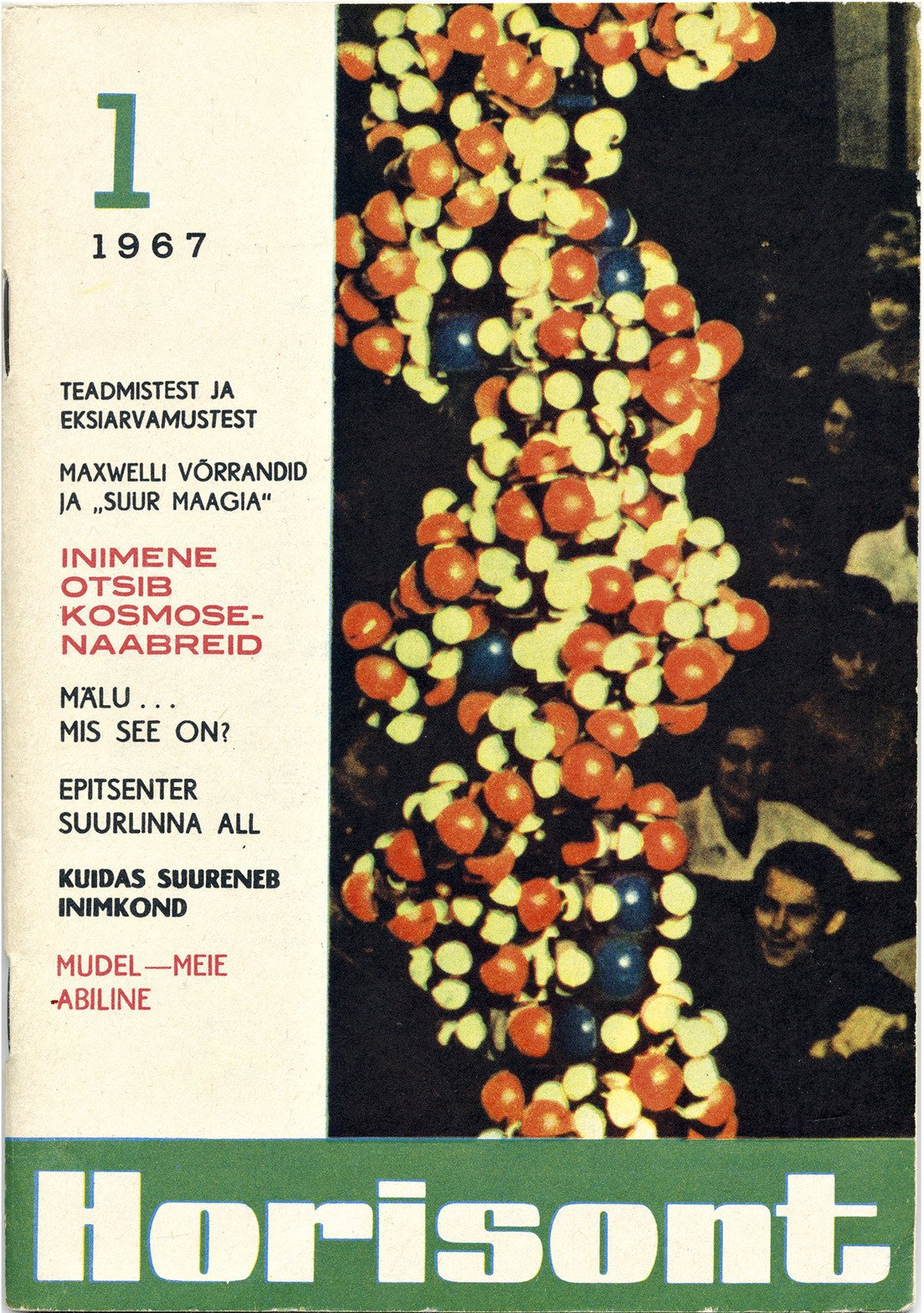 First cover of science magazine Horisont in Estonia.